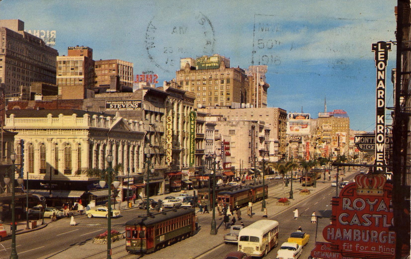 New Orleans: Postcard view of Canal Street, about 1960 View is looking lakewards from the French Quater side, from between Chartres and Royal.